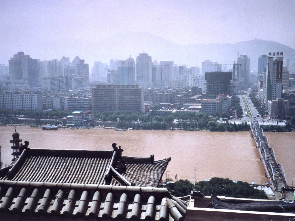 The City of Lanzhou, seen from the Baita Shan Garden on the other side of the Huang He.